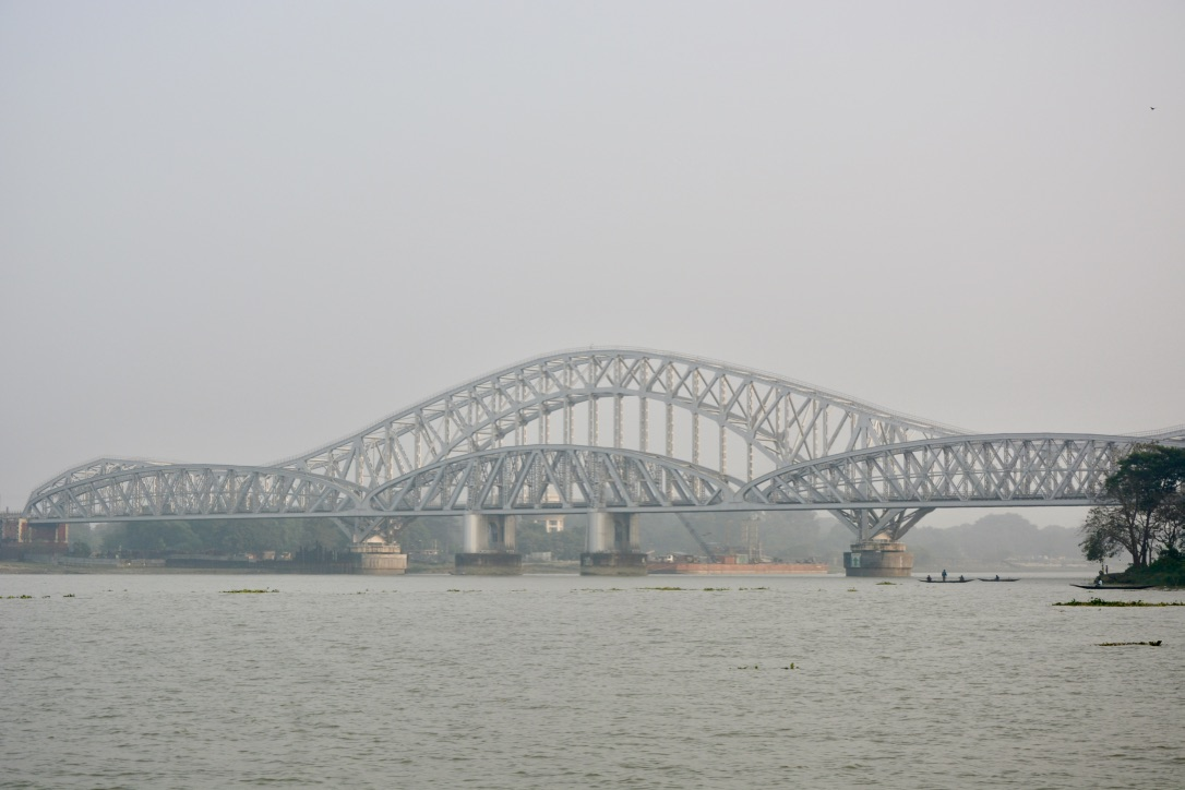 The new bridge, Sampreeti Bridge.